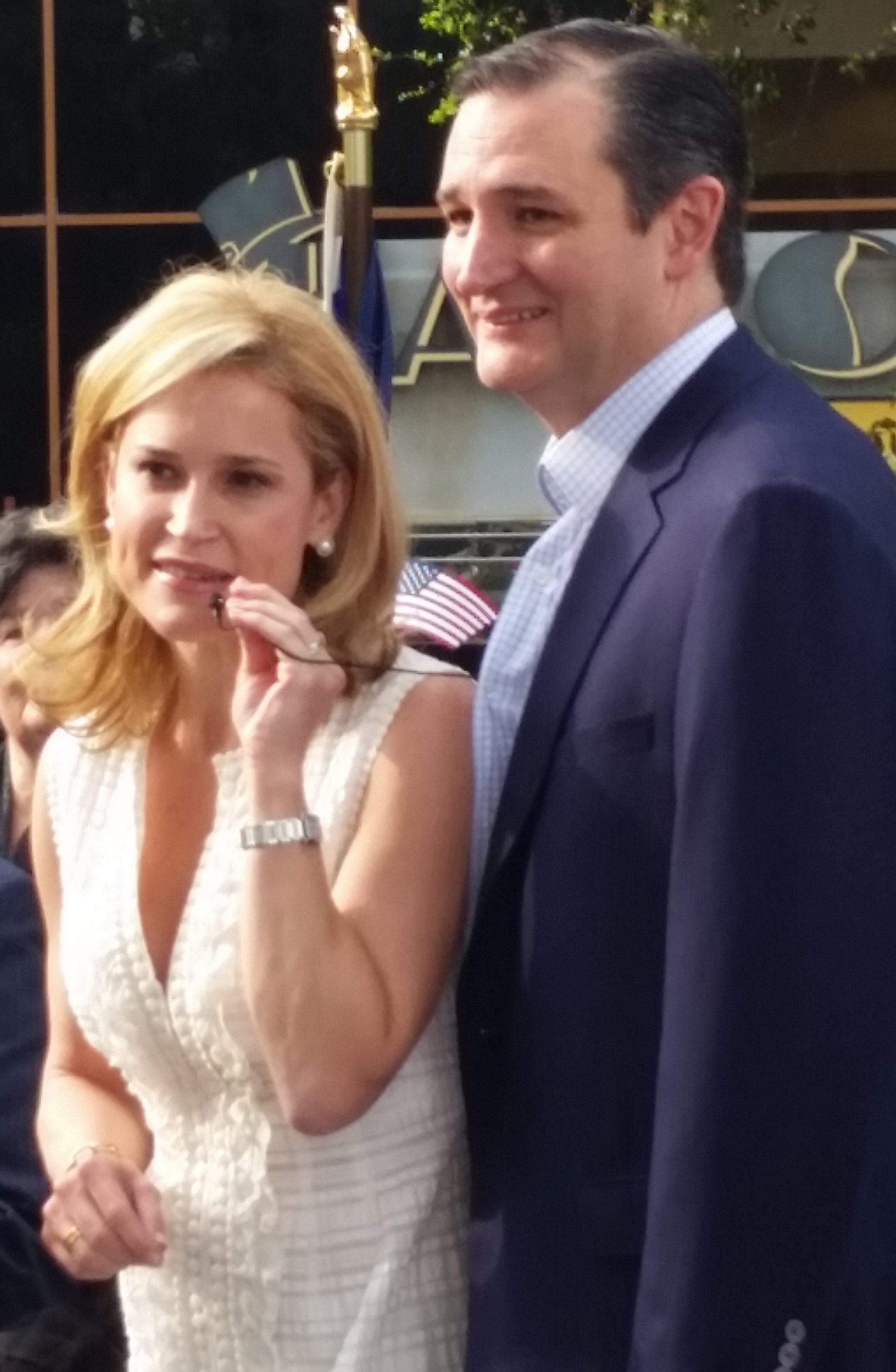 Heidi and Ted Cruz at a rally in Houston, Texas on March 31, 2015.